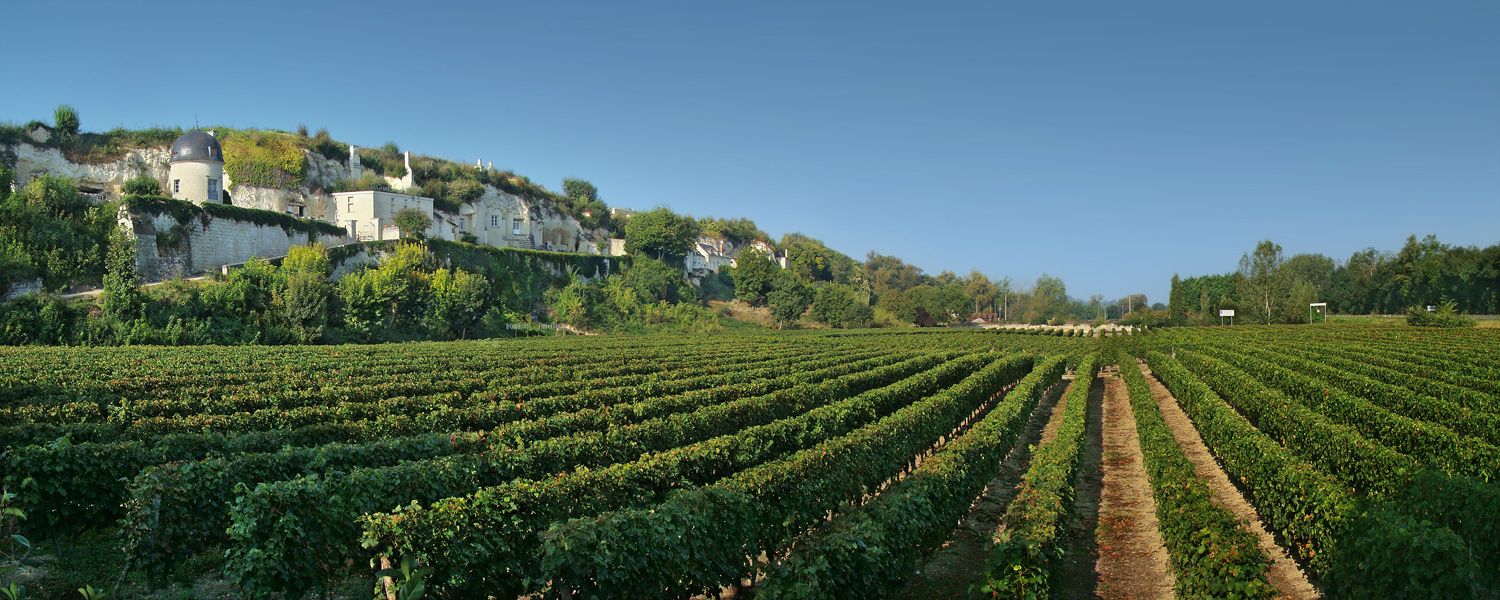 Vineyards and troglodytic houses along route D947 near Turquant, Maine-et-Loire, Pays de la Loire, France.